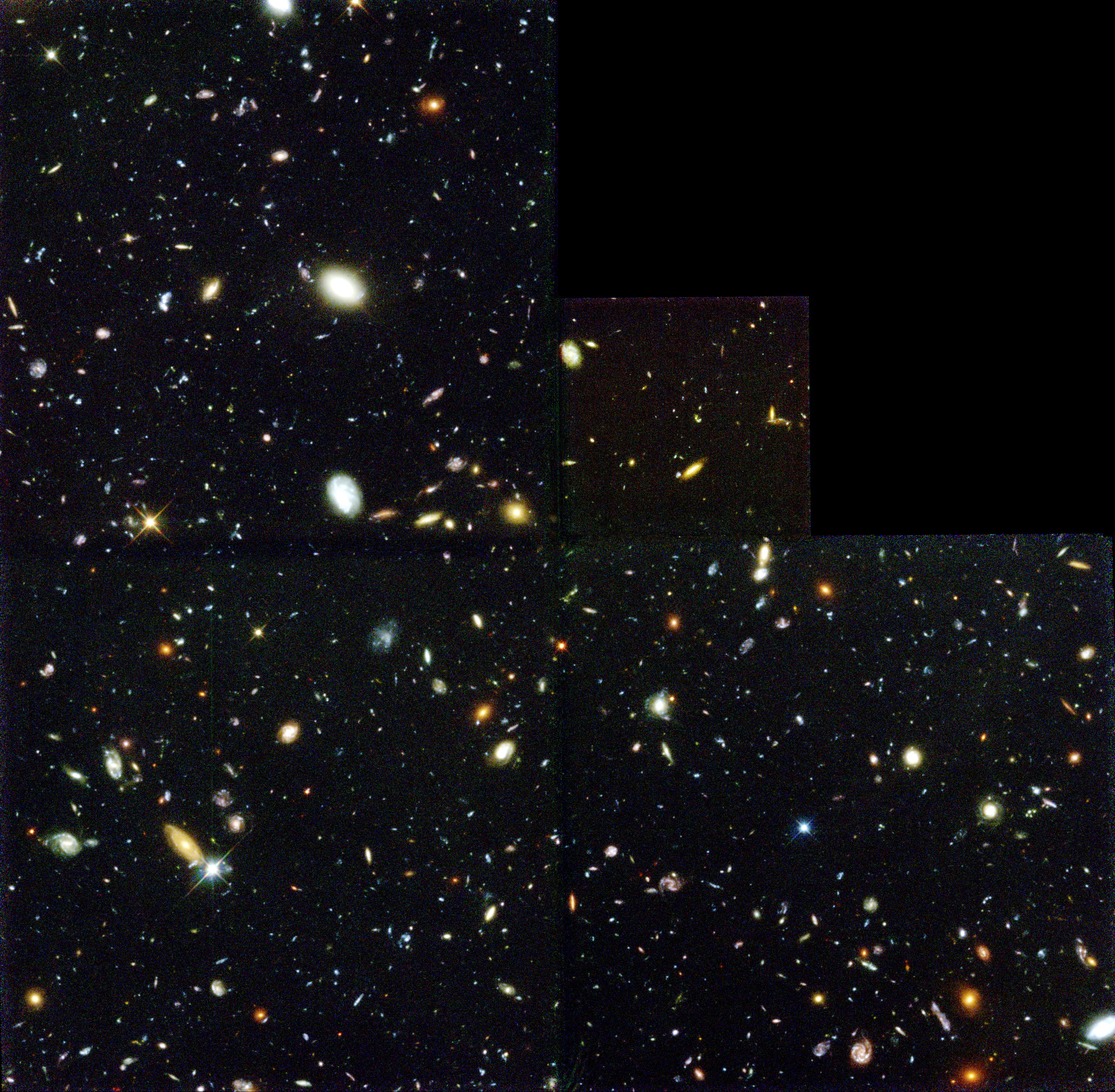 The Hubble Deep Field, a picture taken over the course of ten consecutive days in December 1995, by the Hubble Space Telescope.